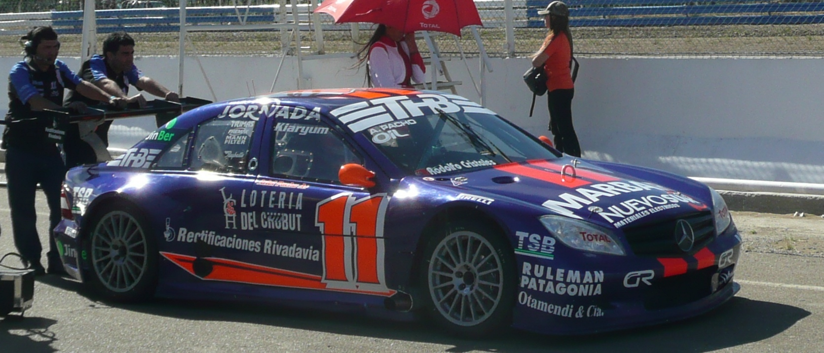 Argentinean Top Race V6 driver Ariel Pacho in Comodoro Rivadavia's race track.